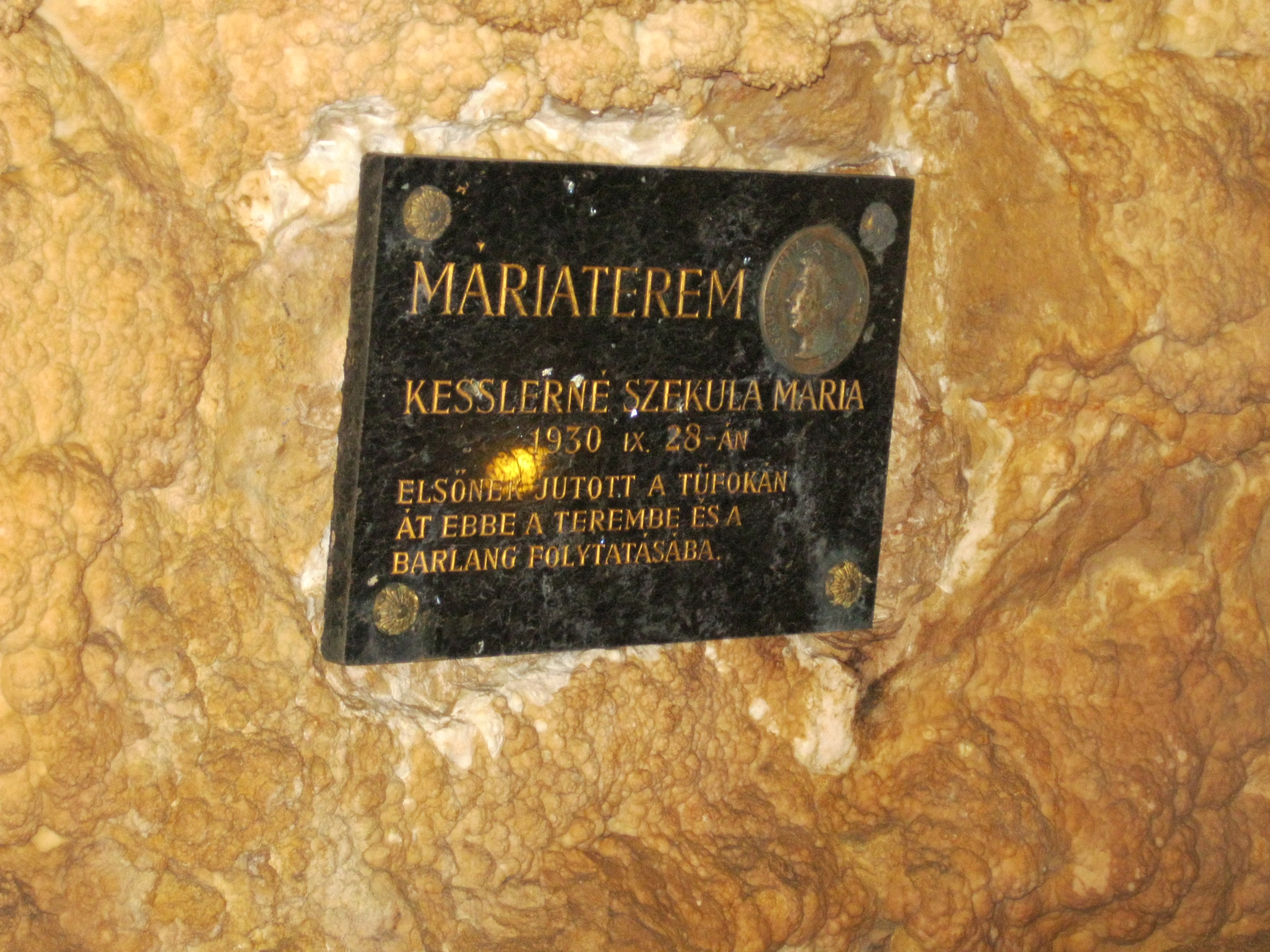 Memorial tablet of Kesslerné Szekula Mária in Szemlő-hegy Cave